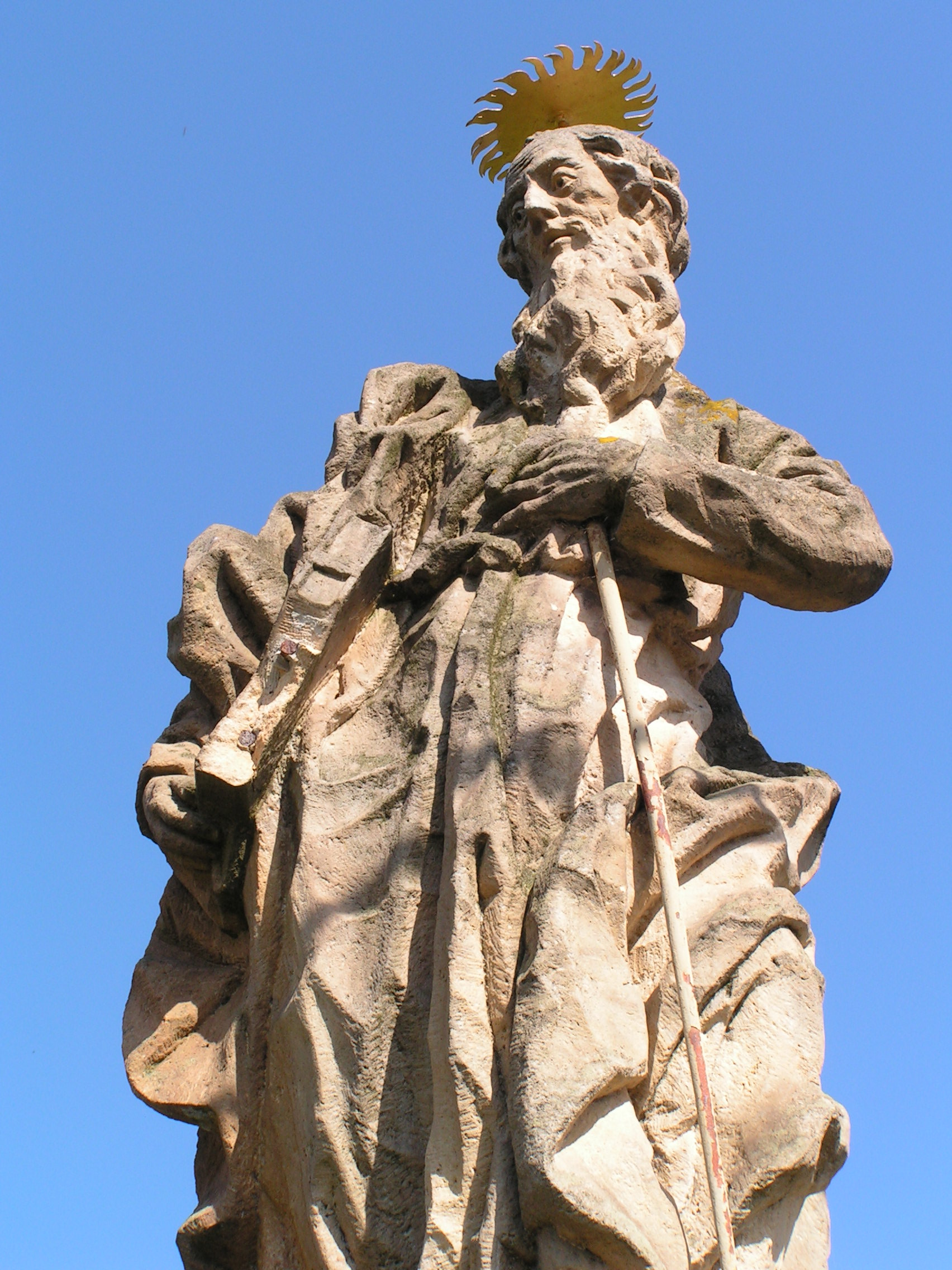 St. Joachim - detail, Radim (District Jicin)